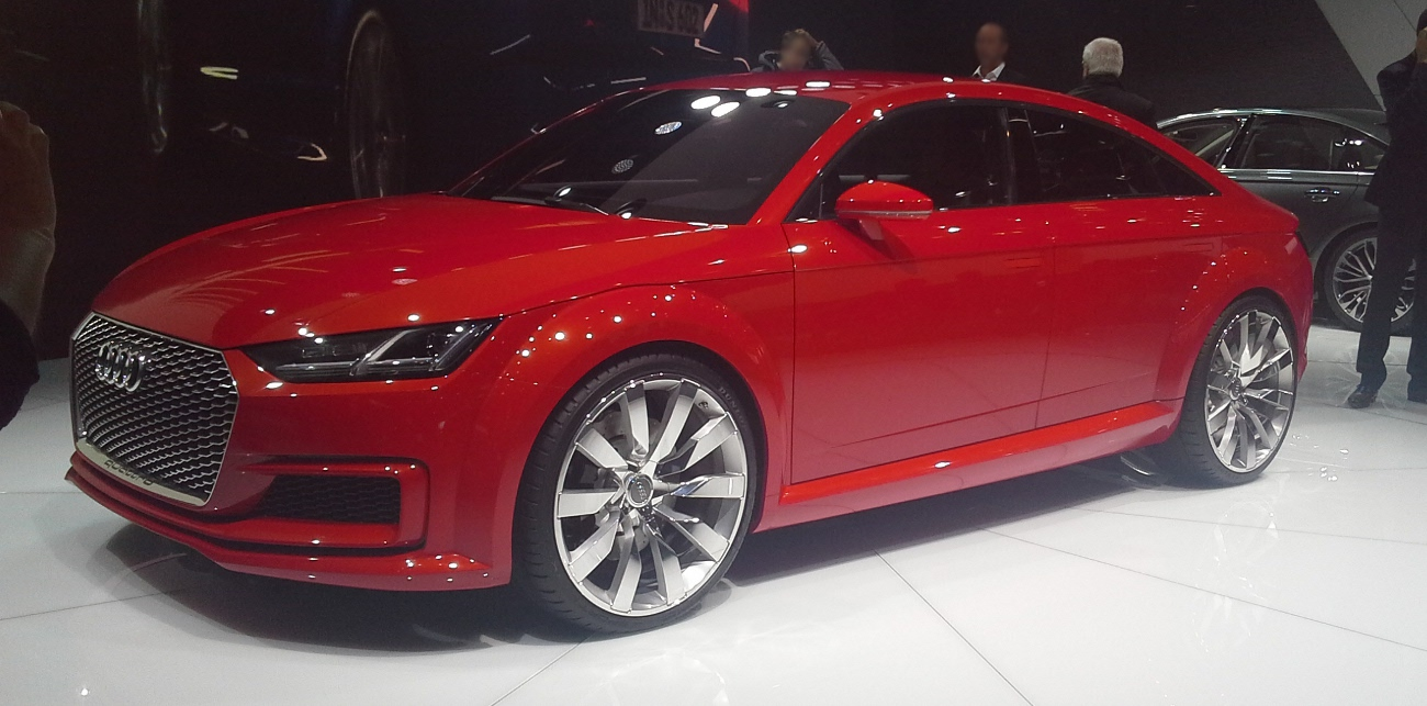 Audi TT Sportback Concept photographed at the Mondial de l'Automobile de Paris 2014 in Paris, France.